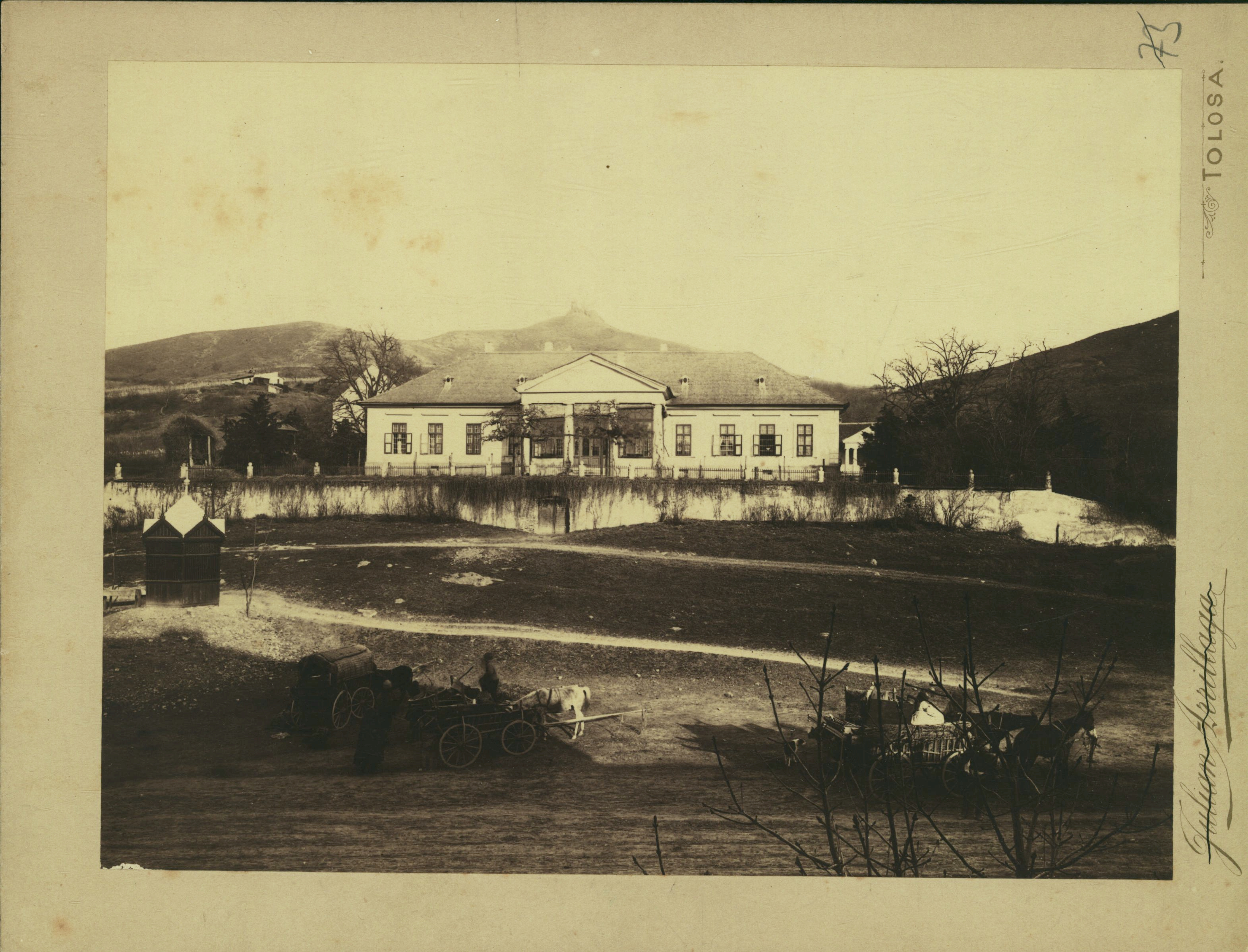 The Bohus manor from Világos where Artúr Görgei signed the surrender of the Hungarian army in 12 August 1849.